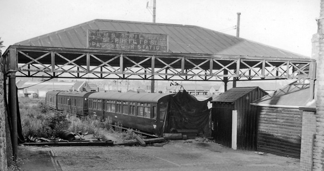 Bristol St Philips Station (remains). View eastwards, towards Lawrence Hill Junction, of dilapidated remains of former terminus of short branch off the Midland main line into Bristol (Temple Meads) from Gloucester, Birmingham etc. A local service had run into St Philips from Clifton Down (until 31/3/41) and from Bath (Queen Square) via Mangotsfield until 21/9/53. (Traffic to the Goods station (by then called Midland Road) ceased on 1/4/67).